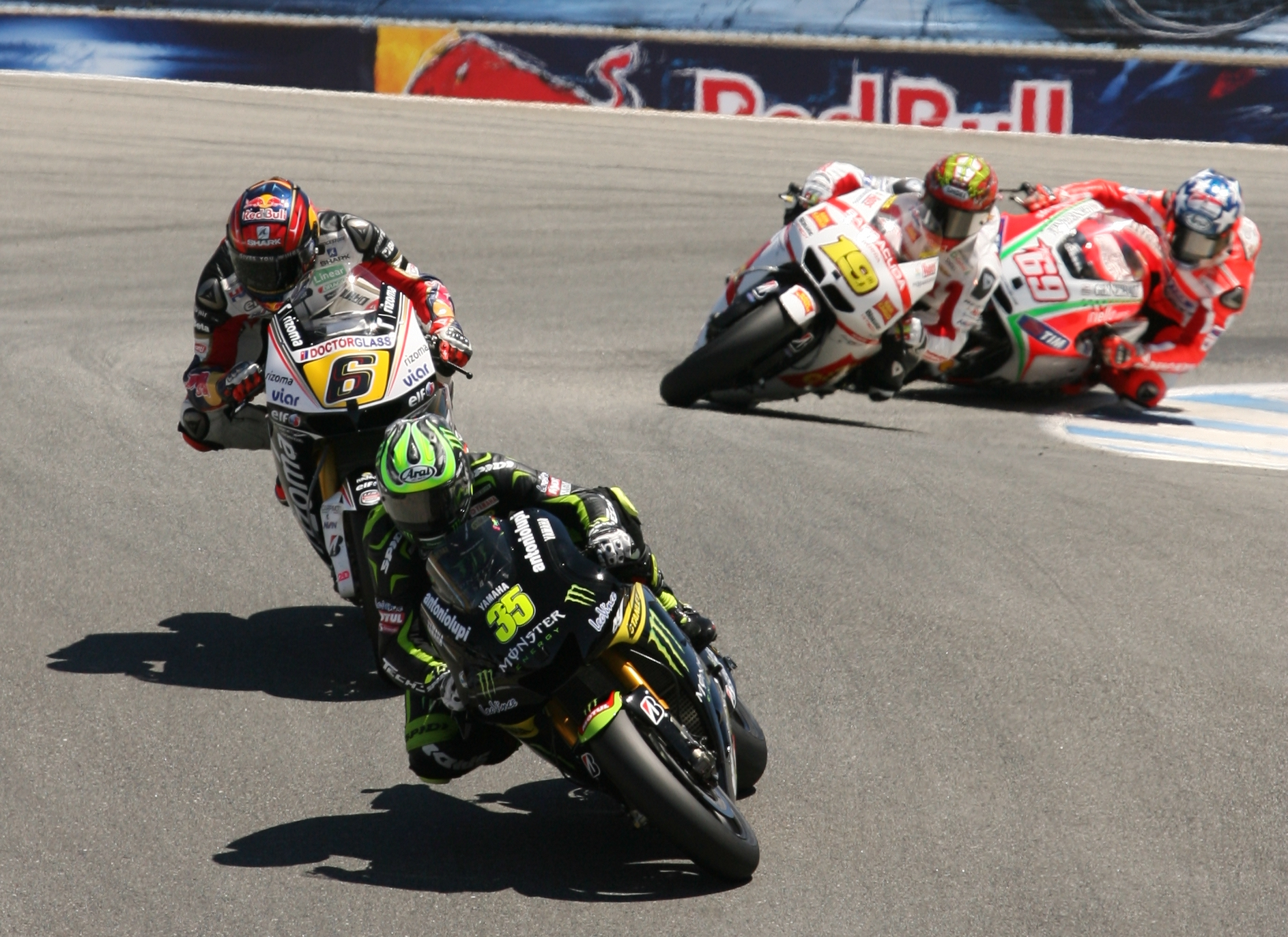 Cal Crutchlow, riding his Monster Energy Yamaha Tech 3, leading the pack while exiting the famous Corkscrew corner at the 2012 United States Grand Prix.